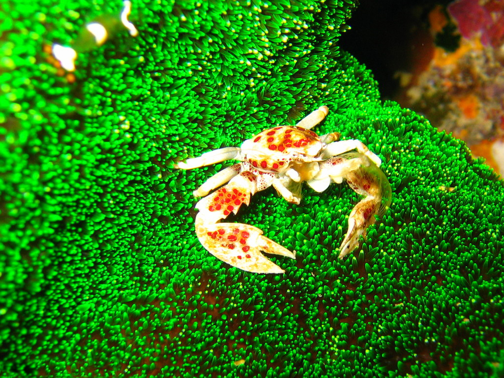 A Red-spotted Porcelain Crab (Neopetrolisthes maculatus) on anemone (Cryptodendrum adhaesivum). Steve's Bommie, Ribbon Reefs, Great Barrier Reef